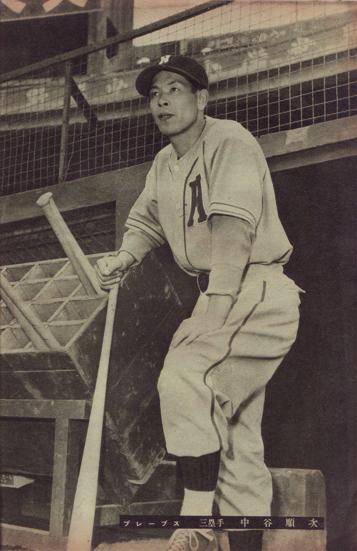 Junji Natakani (Hankyu Braves). taken in 1950.